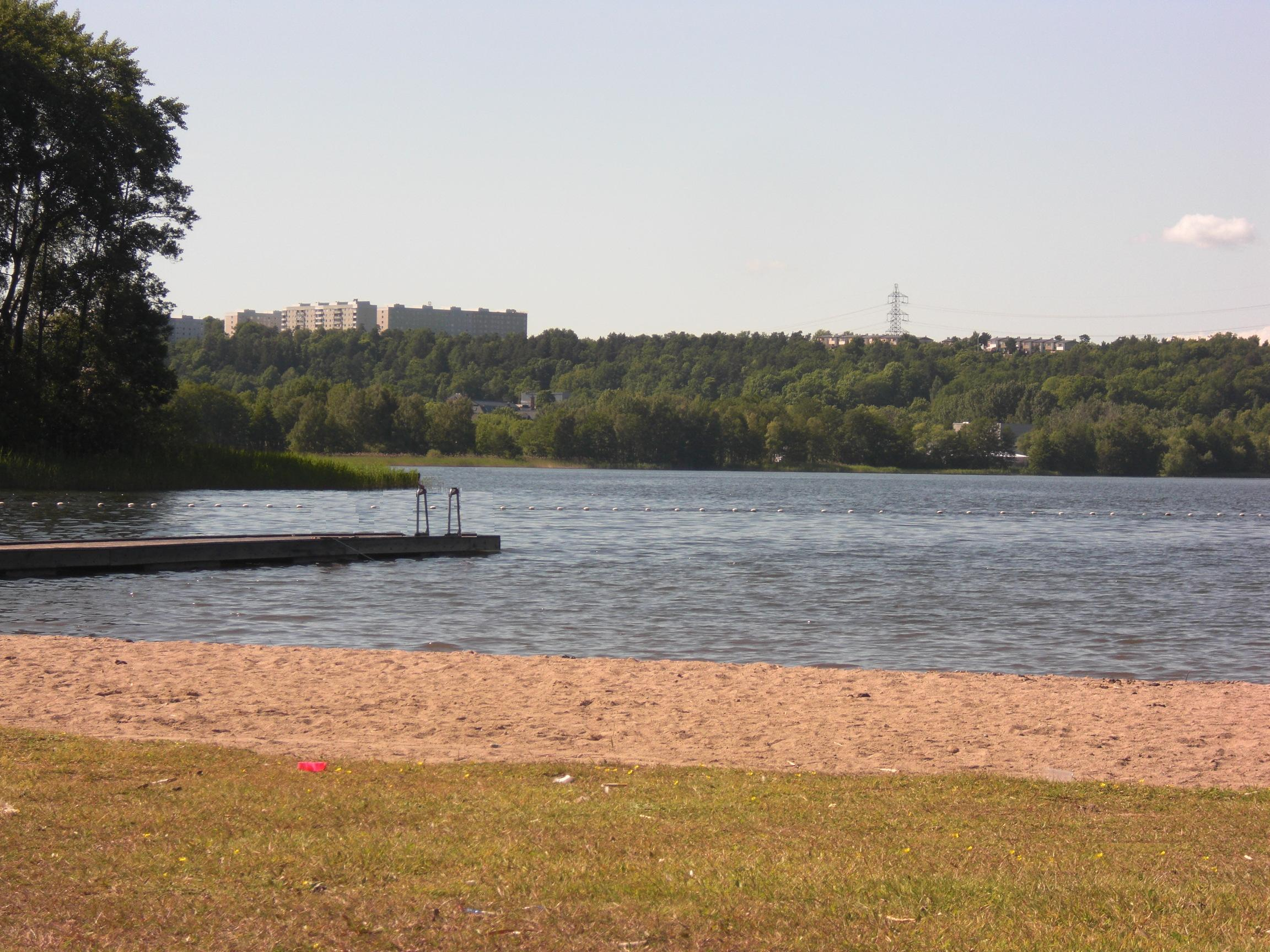 Flottsbro in south of Stockholm view towards Alby